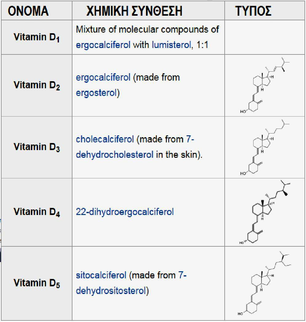 D vitamin types